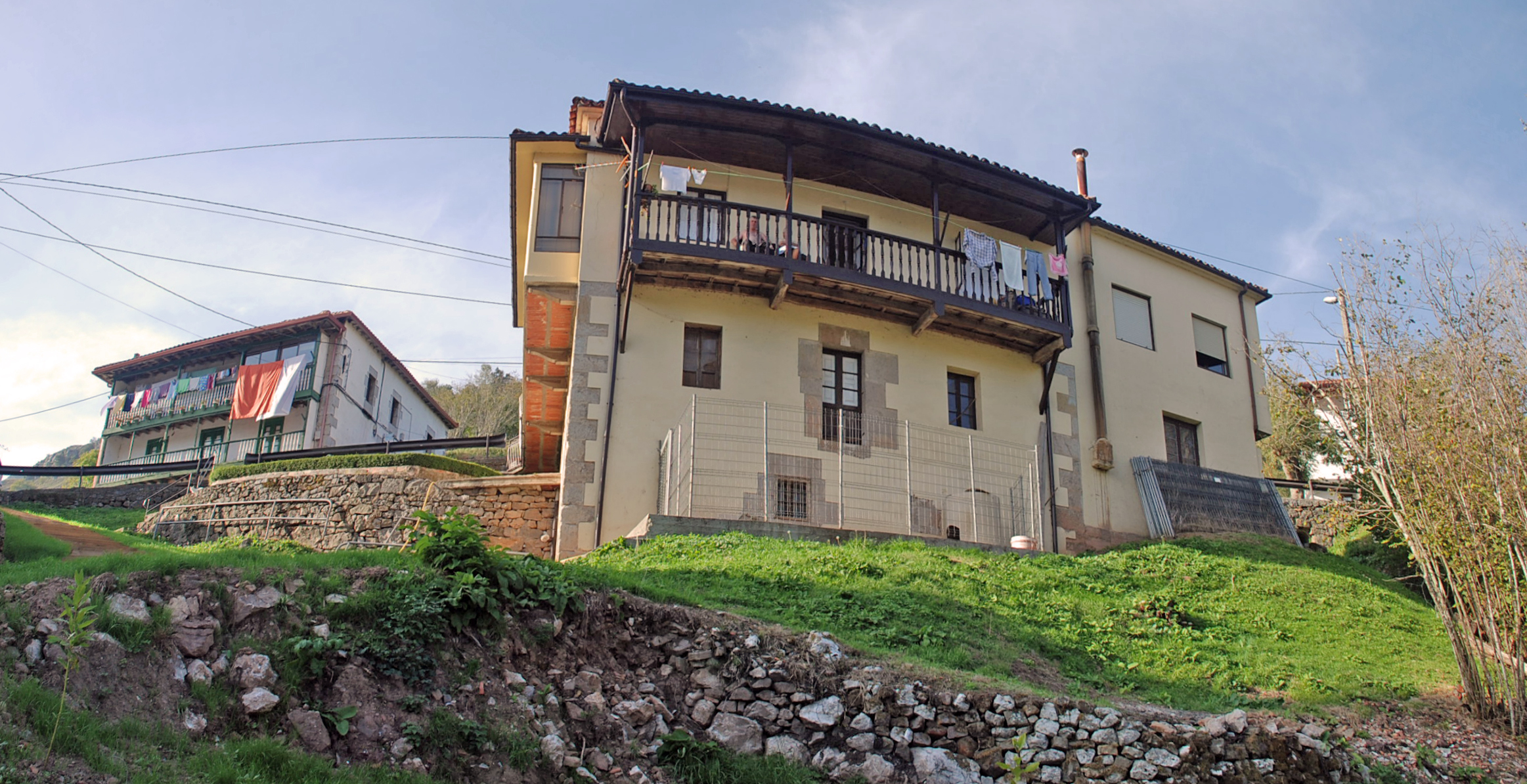 Miera (Cantabria)